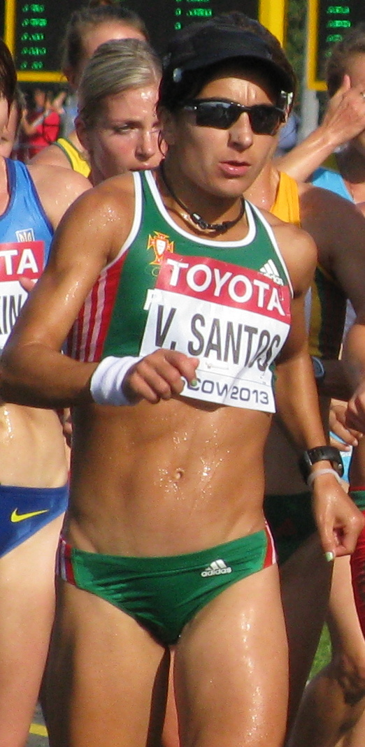 Women's 20 kilometres walk at the 2013 World Championships in Athletics